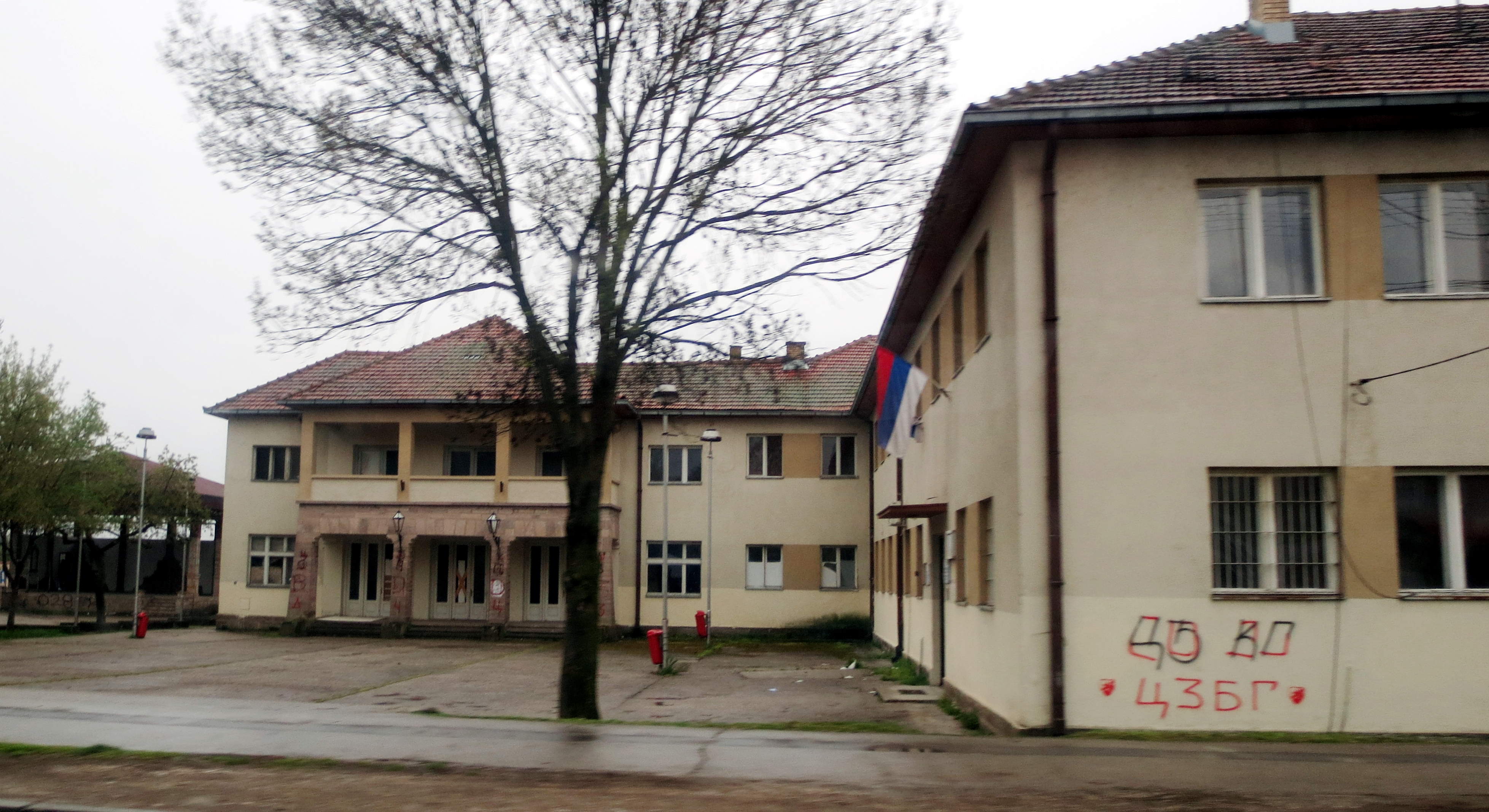 Image of school in Mrcajevci village, municipality of Čačak, central Serbia.